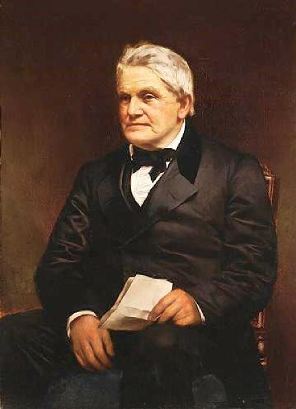 Oil on canvas